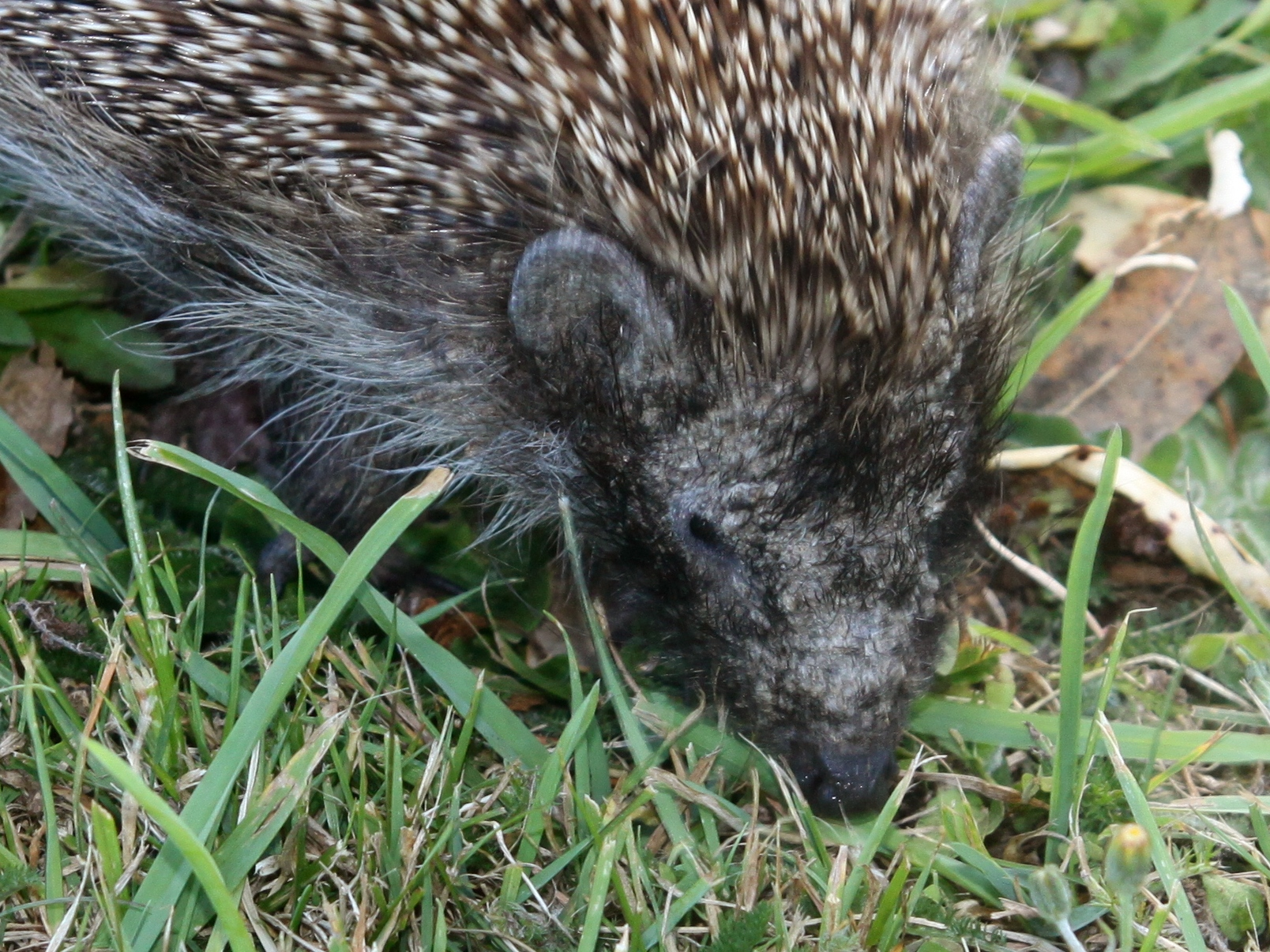 Hedgehog during the day, exhibiting skin diseases on the face. Karori, Wellington, New Zealand.